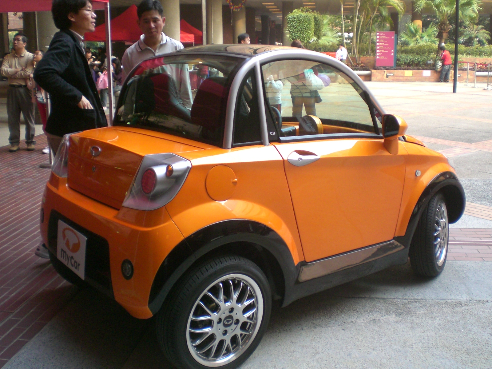 MyCar